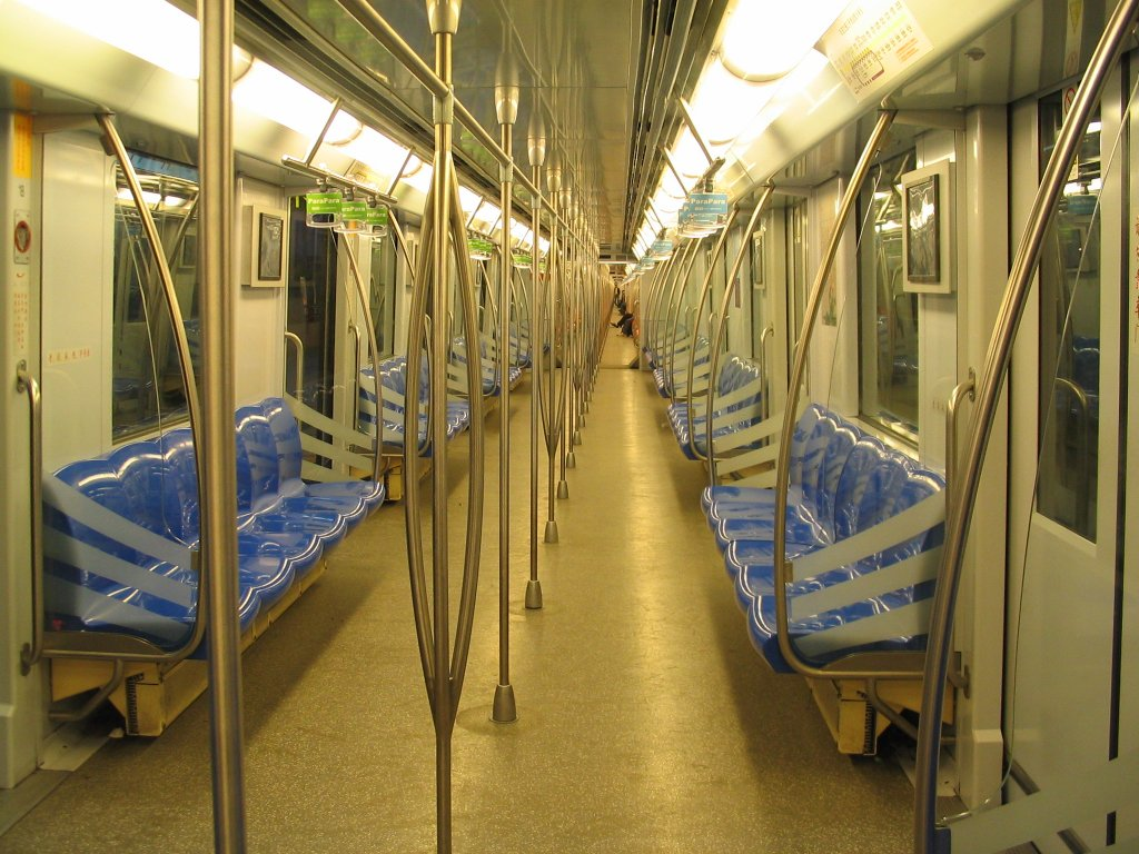 上海軌道交通3號線列車車廂 Interior of Shmetro Line 3 Train